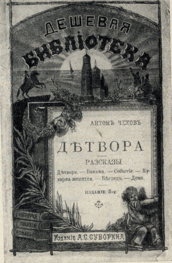 Cover of a book of short stories "Detvora" (Children) by Anton Chekhov, Alexey Suvorin Publishing, Saint Petersburg (3rd edition, 1895; 1st edition was published in 1889)